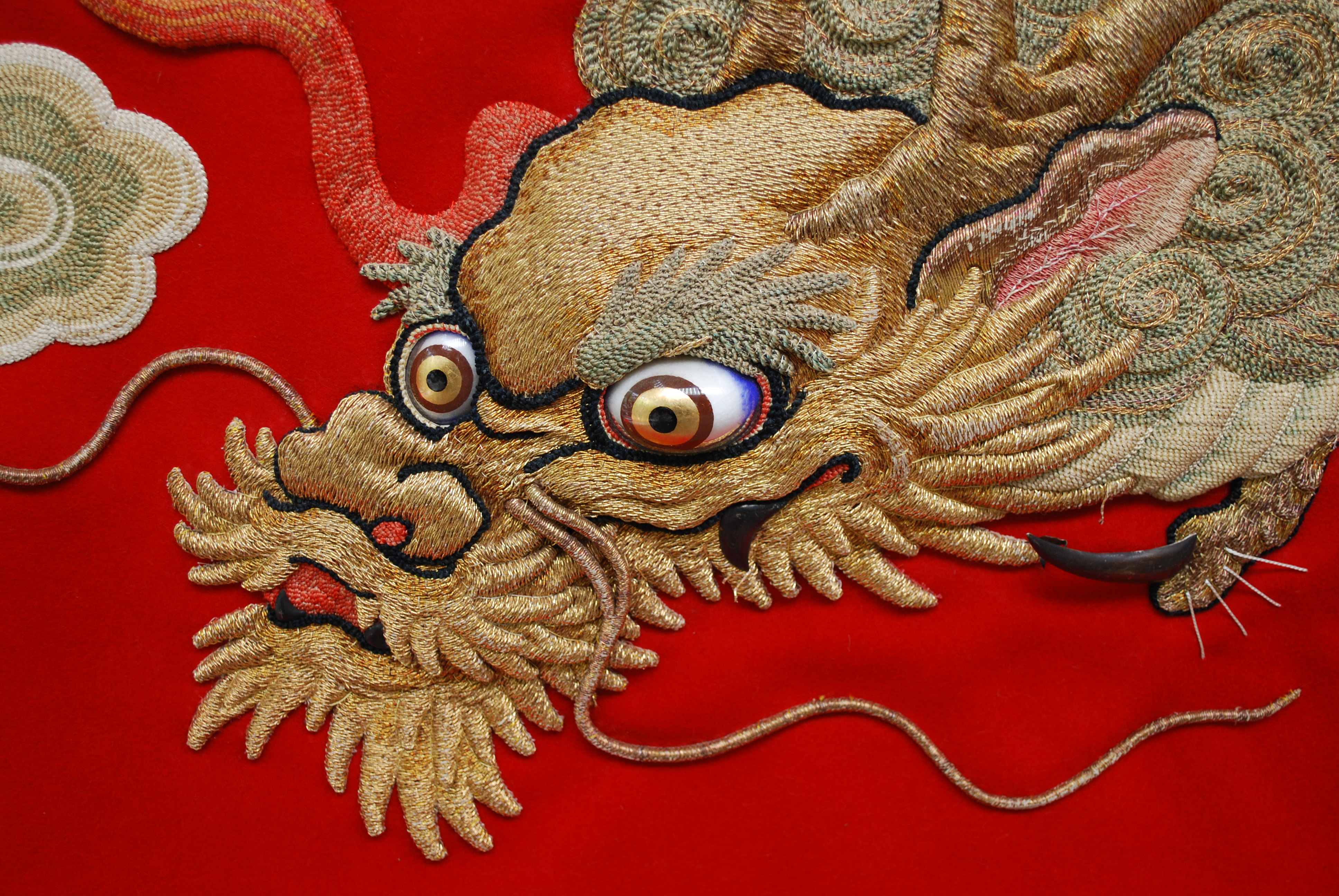 The embroidery of the festival car of the festival of Tochigi,dragon,Yorozucyo-2cyome,tochigi-city,japan